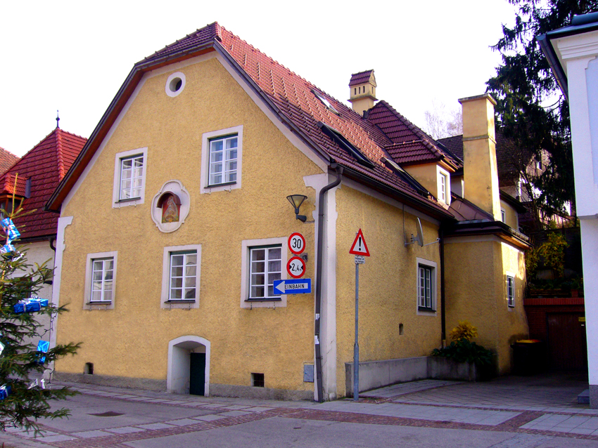 smith's house in scheibbs austria